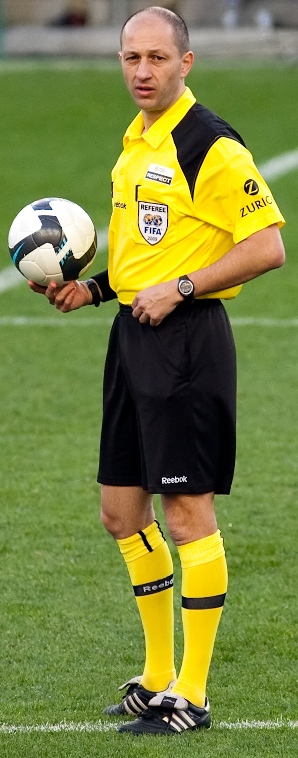 Strebre Devlovski refereeing a match between Sydney FC and Wellington Phoenix in the 2009-10 A-League.